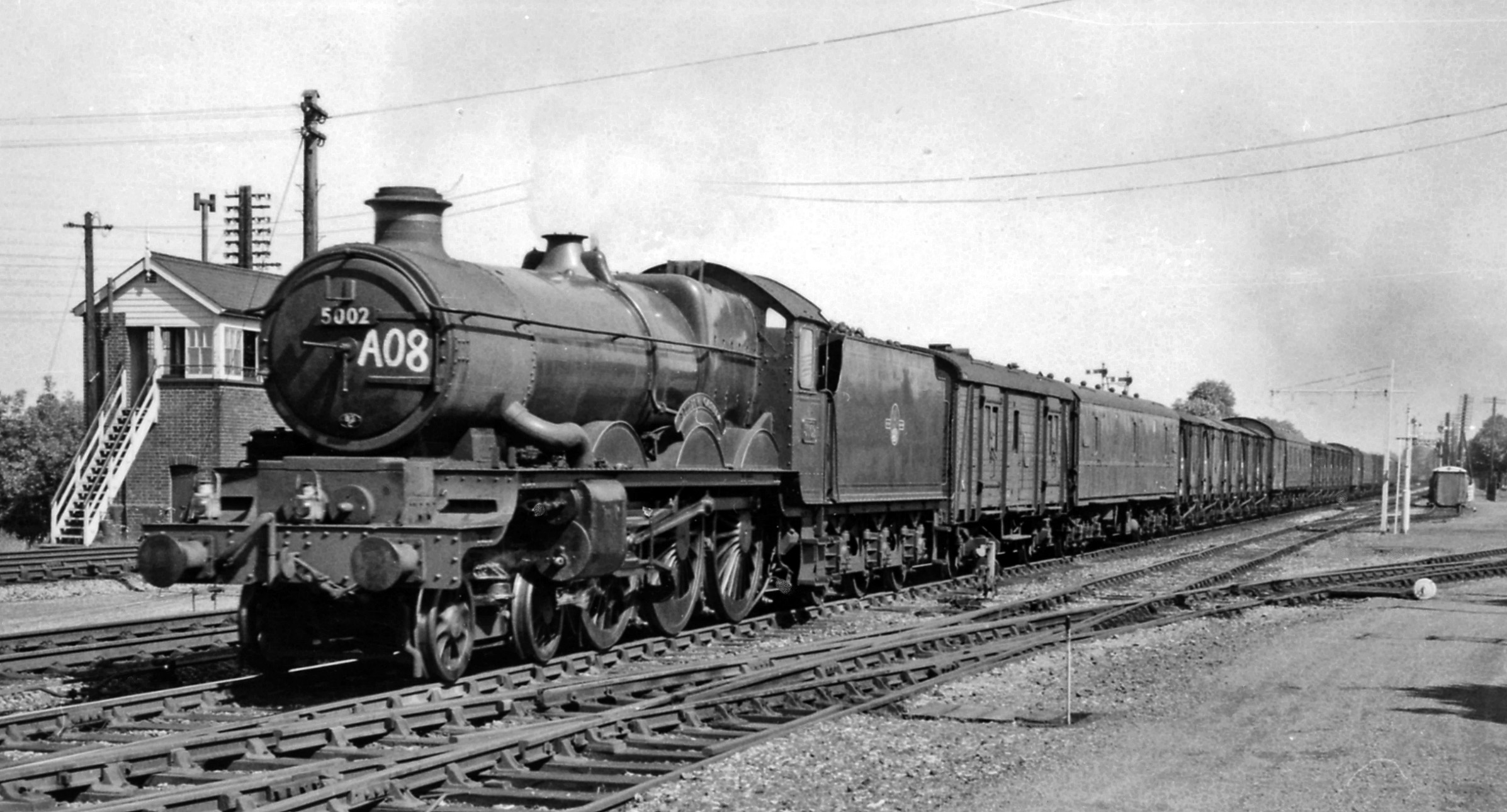 A long Down Parcels approaching Tilehurst with a 'Castle' 4-6-0. View eastward, towards Reading and London; ex-GWR Paddington - Bristol etc. main line. Built in 9/26, No. 5002 'Ludlow Castle' was one of the early batch of Collett 'Castles' and was in service until 9/64. 'A08' was probably the Reporting Number of its previous Up working - not of the Parcels.